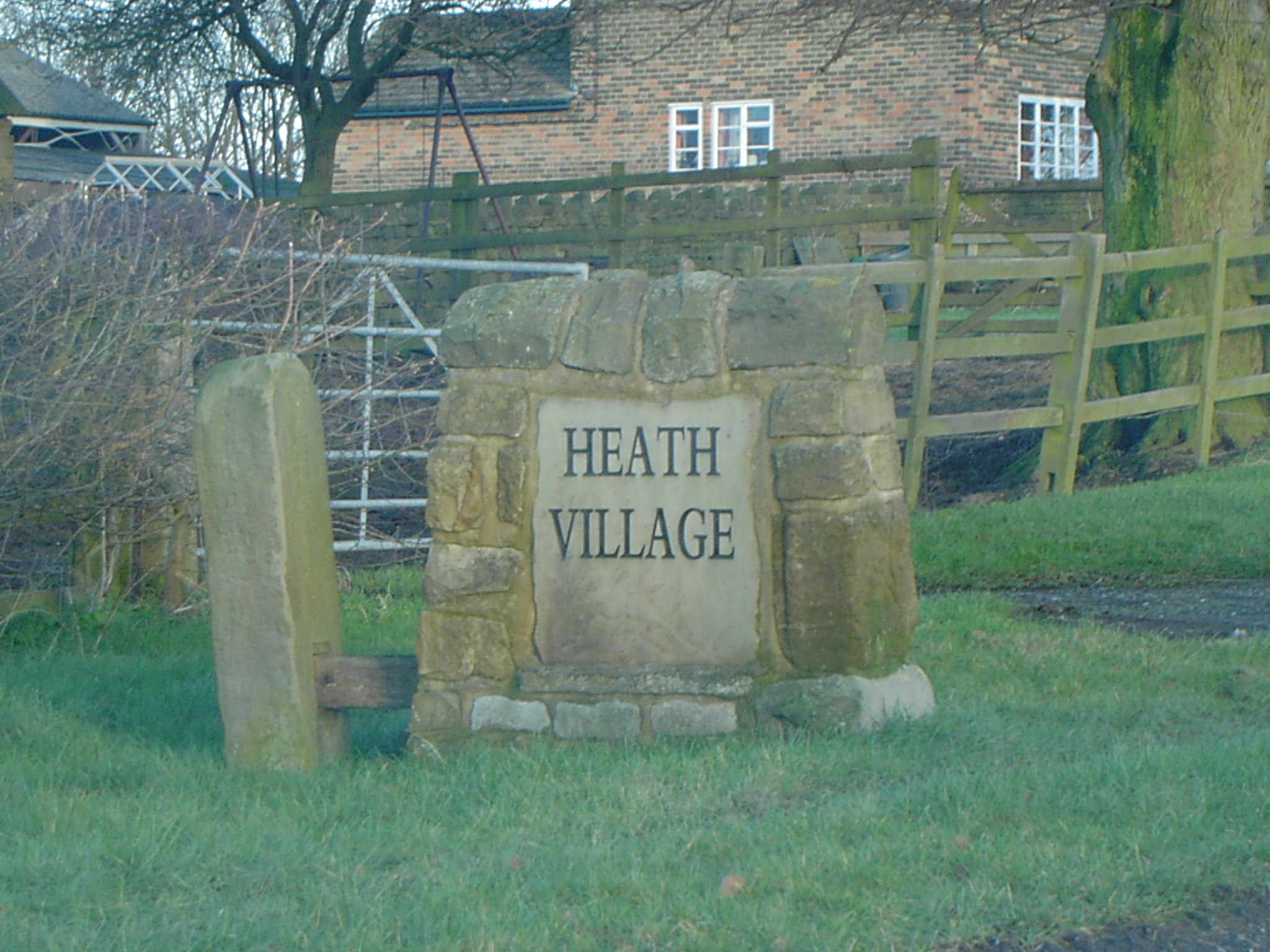 Heath